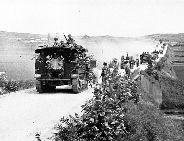 A convoy with artillery prime movers in Korea. Remark: The leading vehicle is M5 High Speed Tractor.